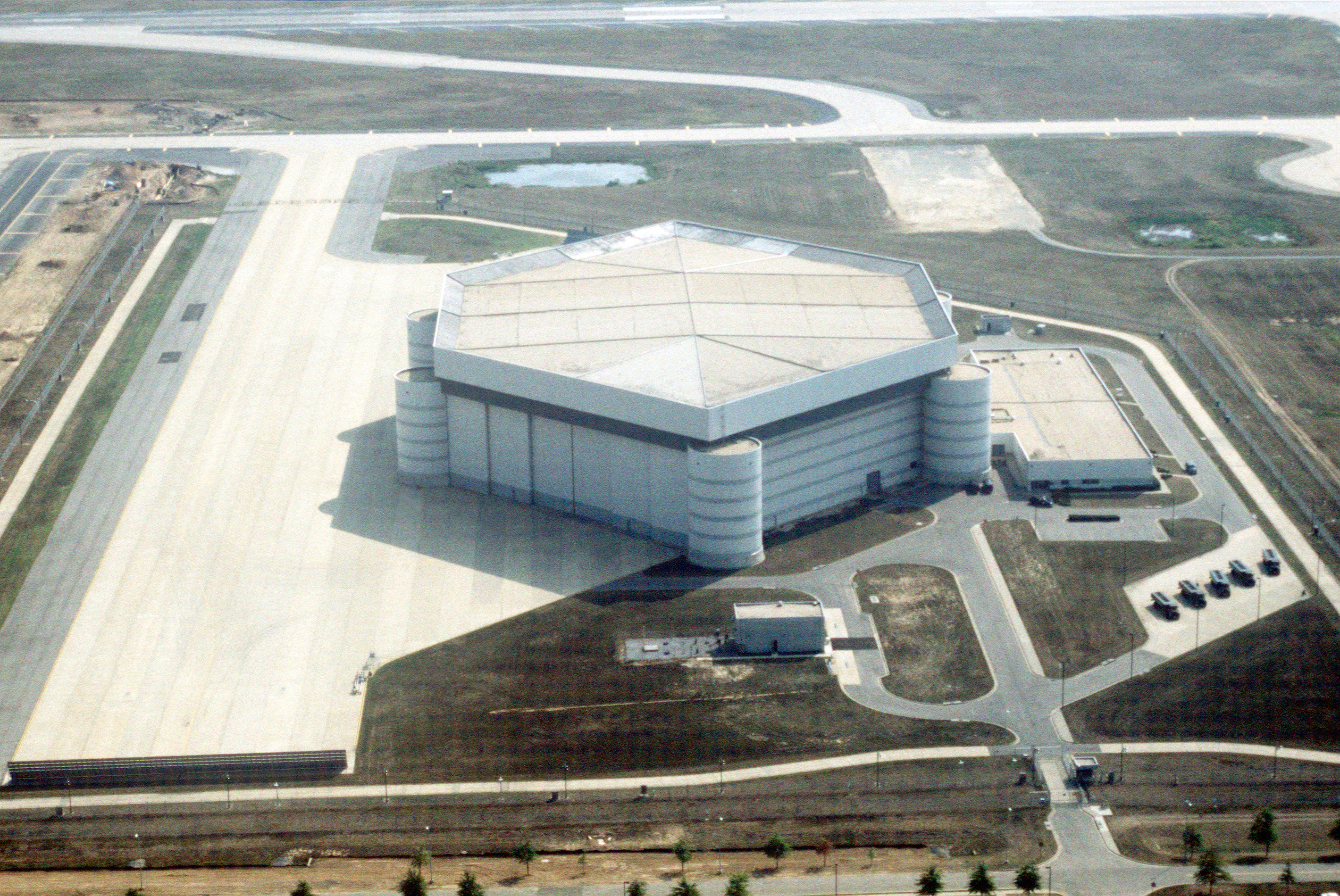 Aerial image of building 5016, Air Force One Hangar, at Andrews Air Force Base, Maryland.